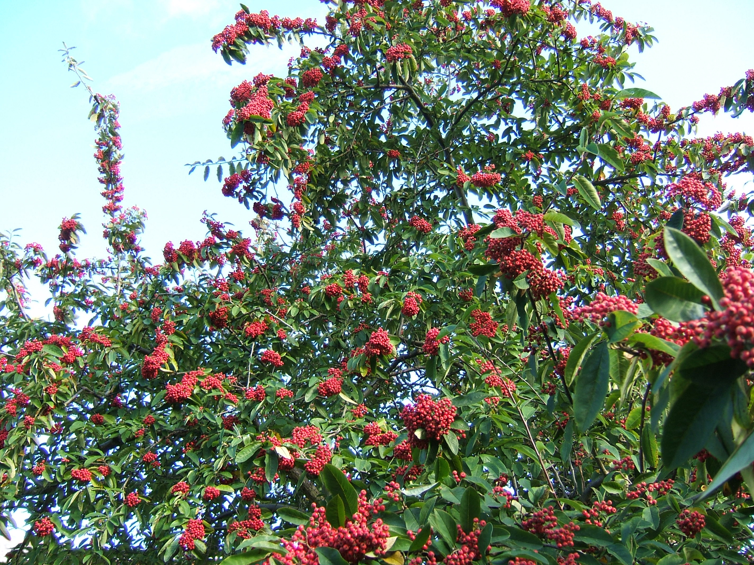 Cotoneaster frigidus foliage and fruit. Naturalised, Newcastle, Northumberland, UK.